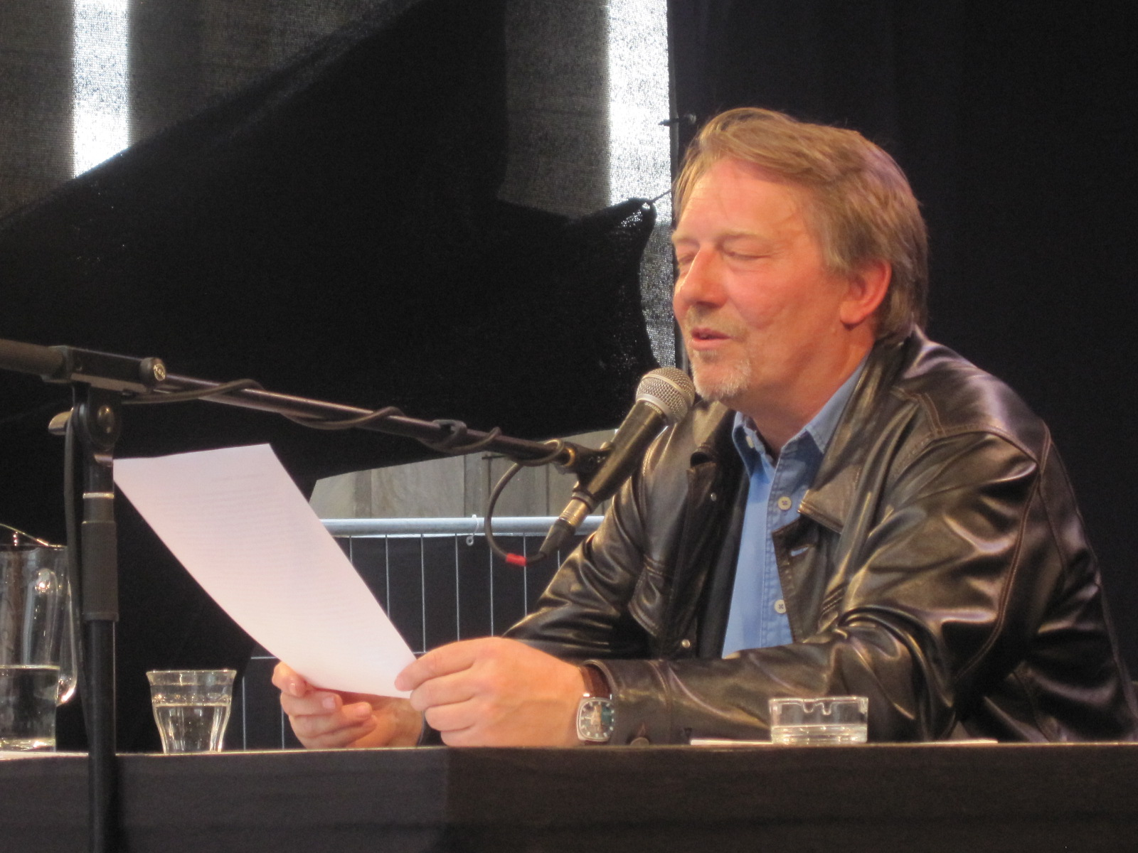 Dietmar Wischmeyer, german author and satirist